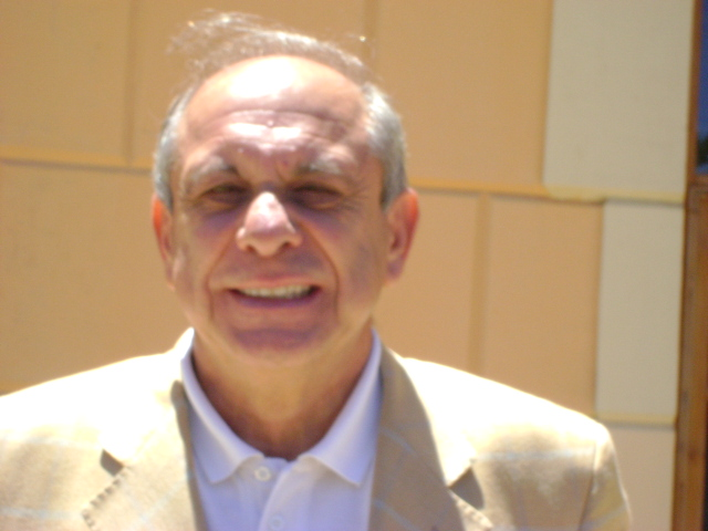 Juan Carlos Latorre, Chilean politician, attending the inauguration of Ross Cultural Centre, in Pichilemu.